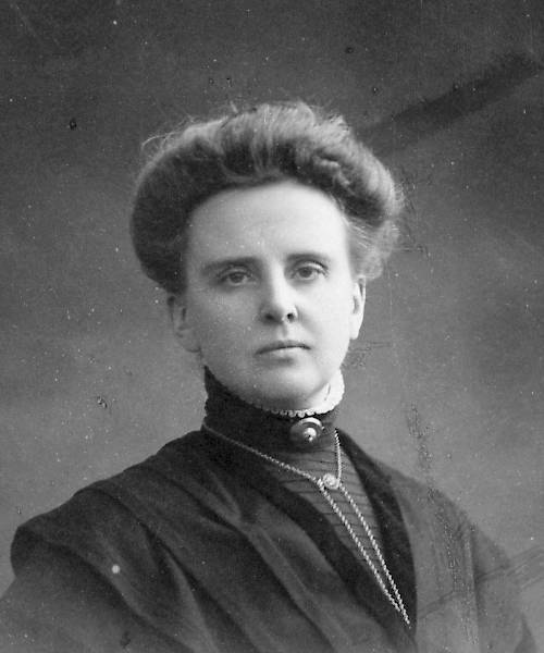 Finnish gymnast Elli Björkstén (1870–1947).